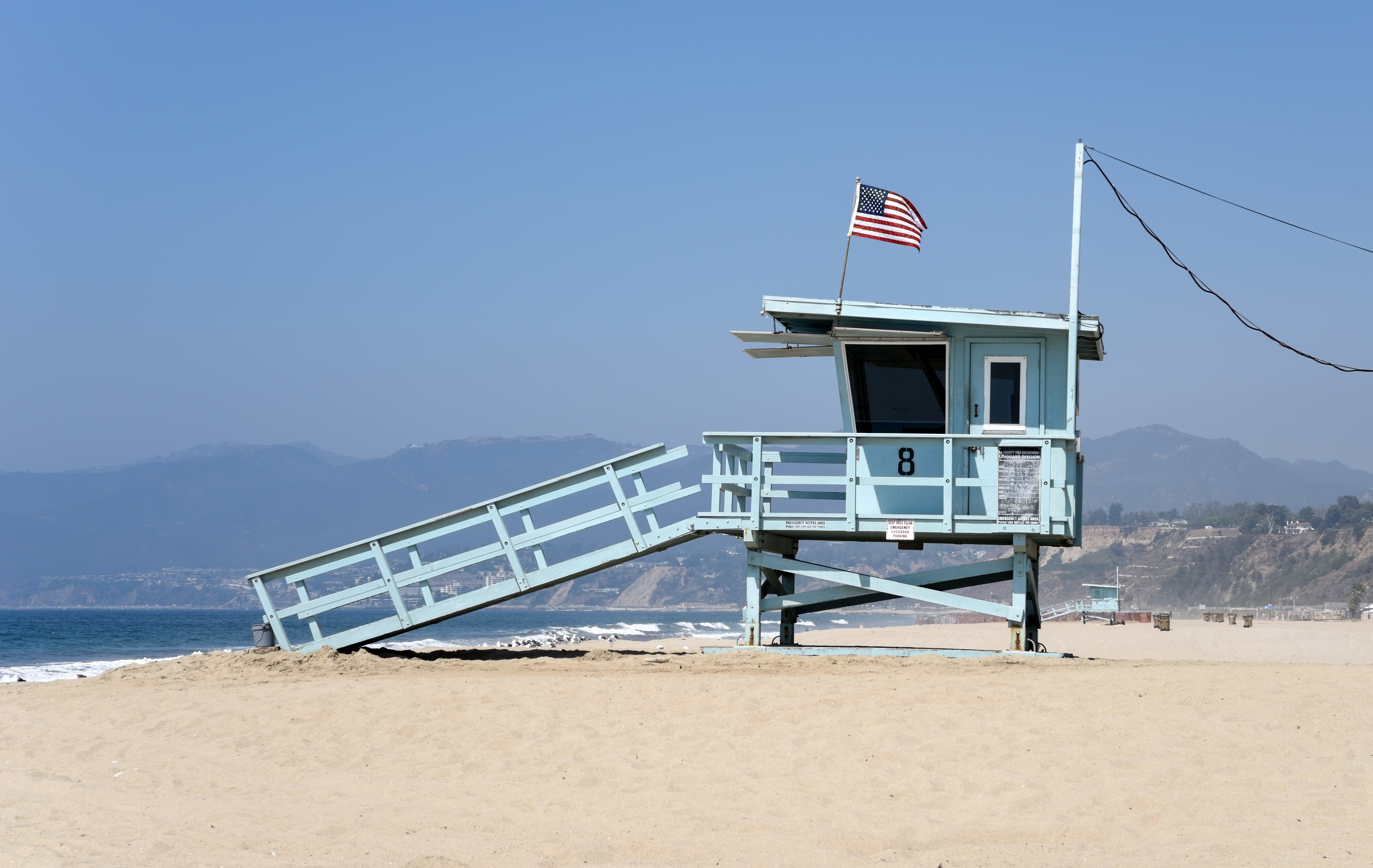 Lifeguard tower at Santa Monica State Beach in Santa Monica, California. Dozens of western gulls (Larus occidentalis) are seen in the background, close to the sea.